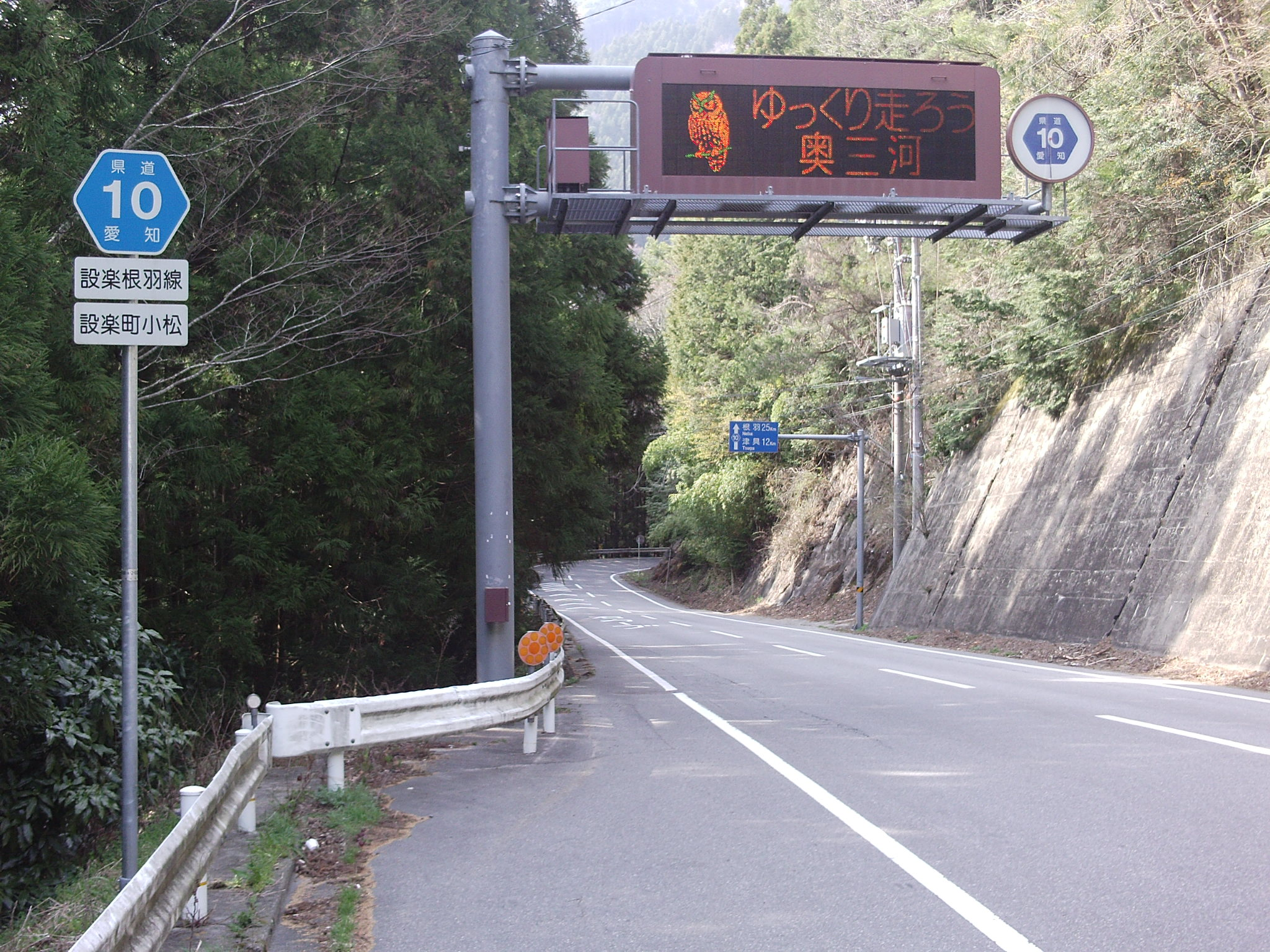 The Aichi Prefectural Road Route 10 in Komatsu, Shitara Town